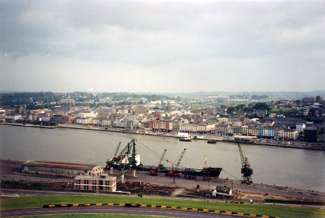 City of Waterford